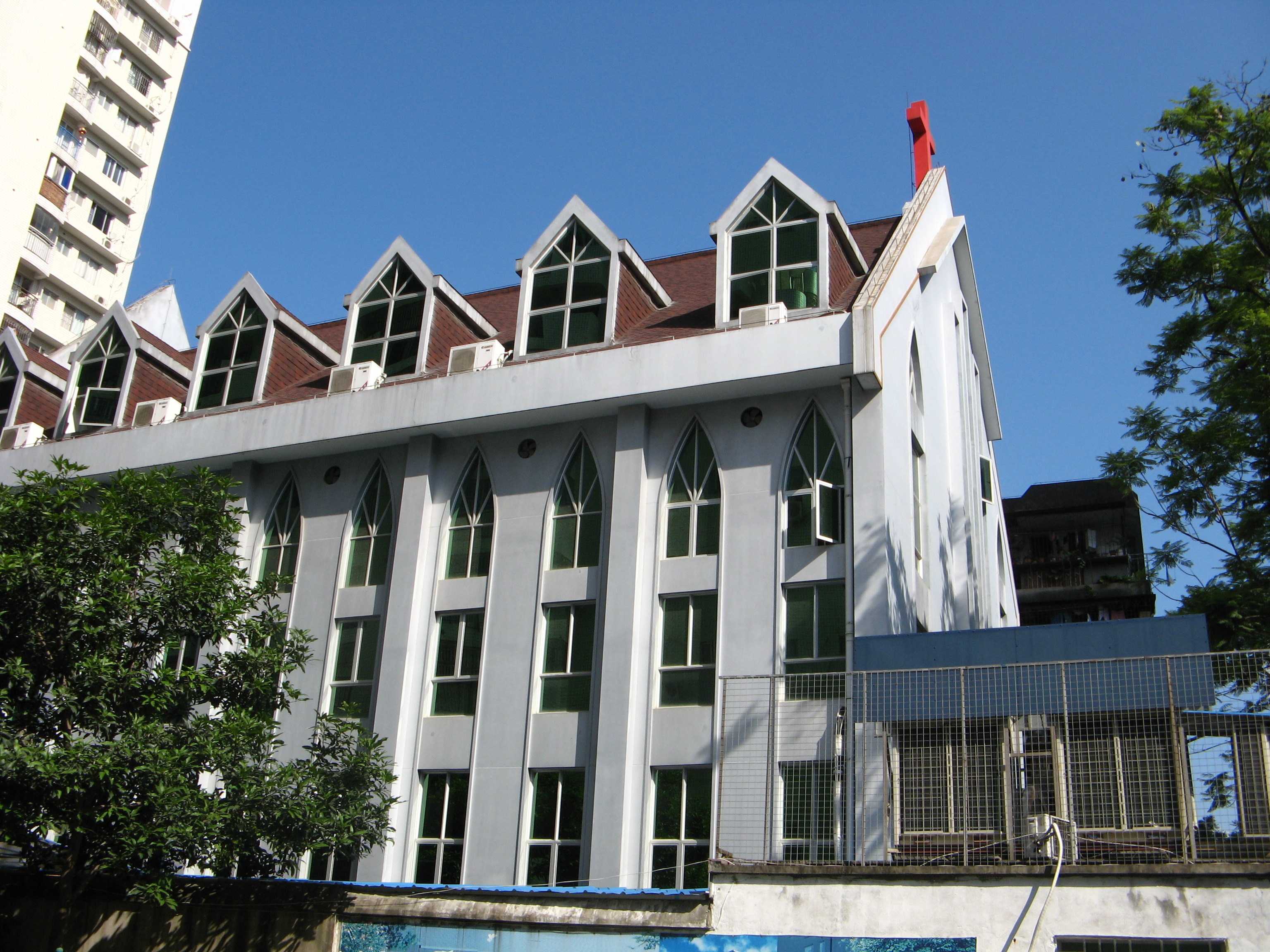 Big Root Church, Fuzhou